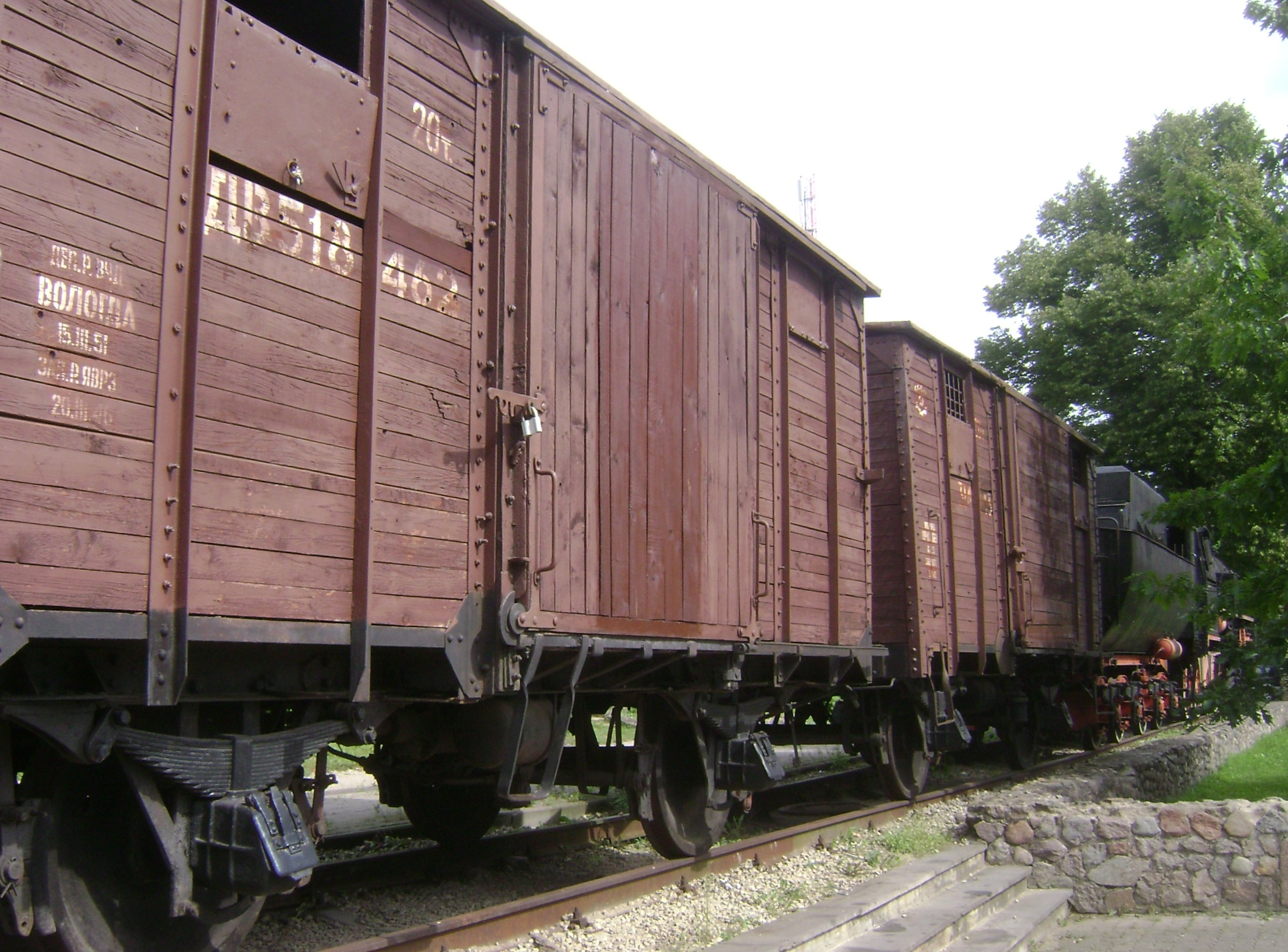 Lithuania. Vilnius. Naujoji Vilnia